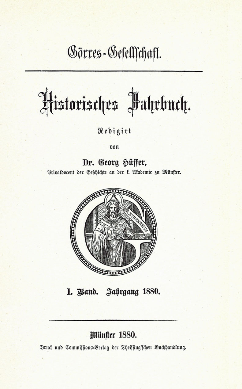 This is a scan of the historical document.